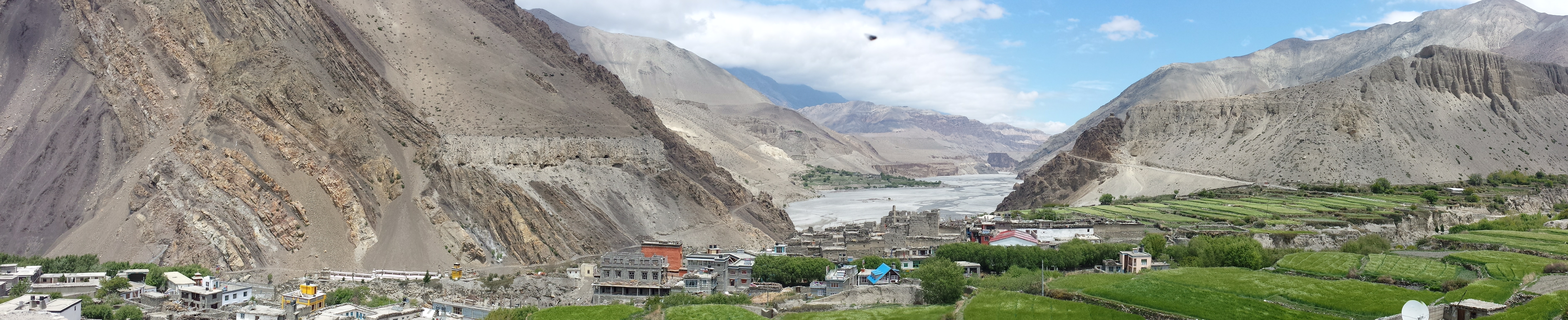 Mustang